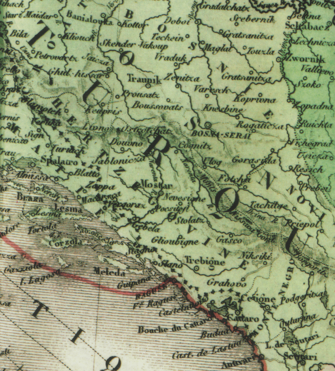 Section depicting Herzegovina on the map published in 1862 in Paris (by Dramard-Baudry). Title of the map is: „Map of the Serb population of Turkish Europe and of Southern Austria with the borders of the Serbian Empire of Dushan the Great (XIV. century)”; the translation from the French original.